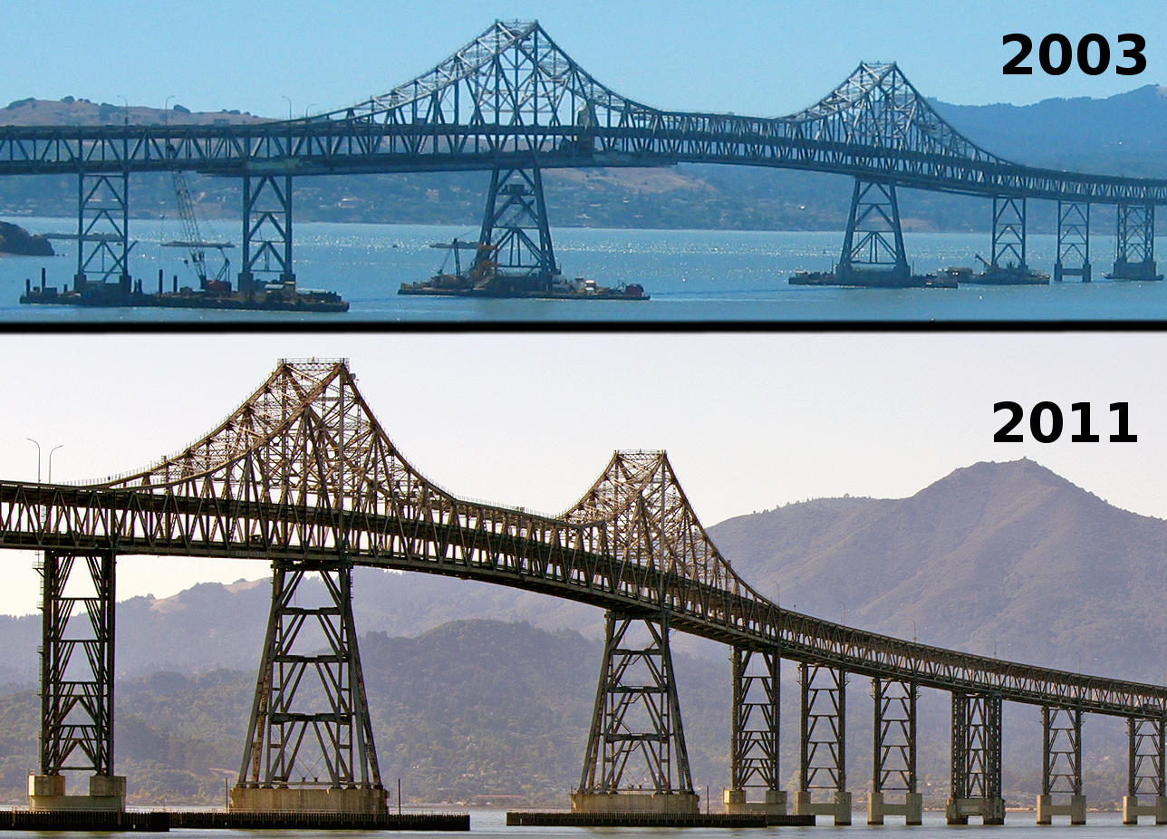 Comparison of Richmond-San Rafael Bridge piers before and after reconstruction for seismic concerns. Top photo was taken in 2003 and shows the eastern cantilever span. Pier bracing is "chevron-style" and diagonal braces come to a common central point. Bottom photo was taken in 2011 after reconstruction was complete and shows the western cantilever span. Note difference in vertical clearance between western span (180 ft) and eastern span (135 ft) which is reflected in the height of the supporting piers. Reconstructed pier bracing is "eccentric" and diagonal braces no longer come to a common central point.